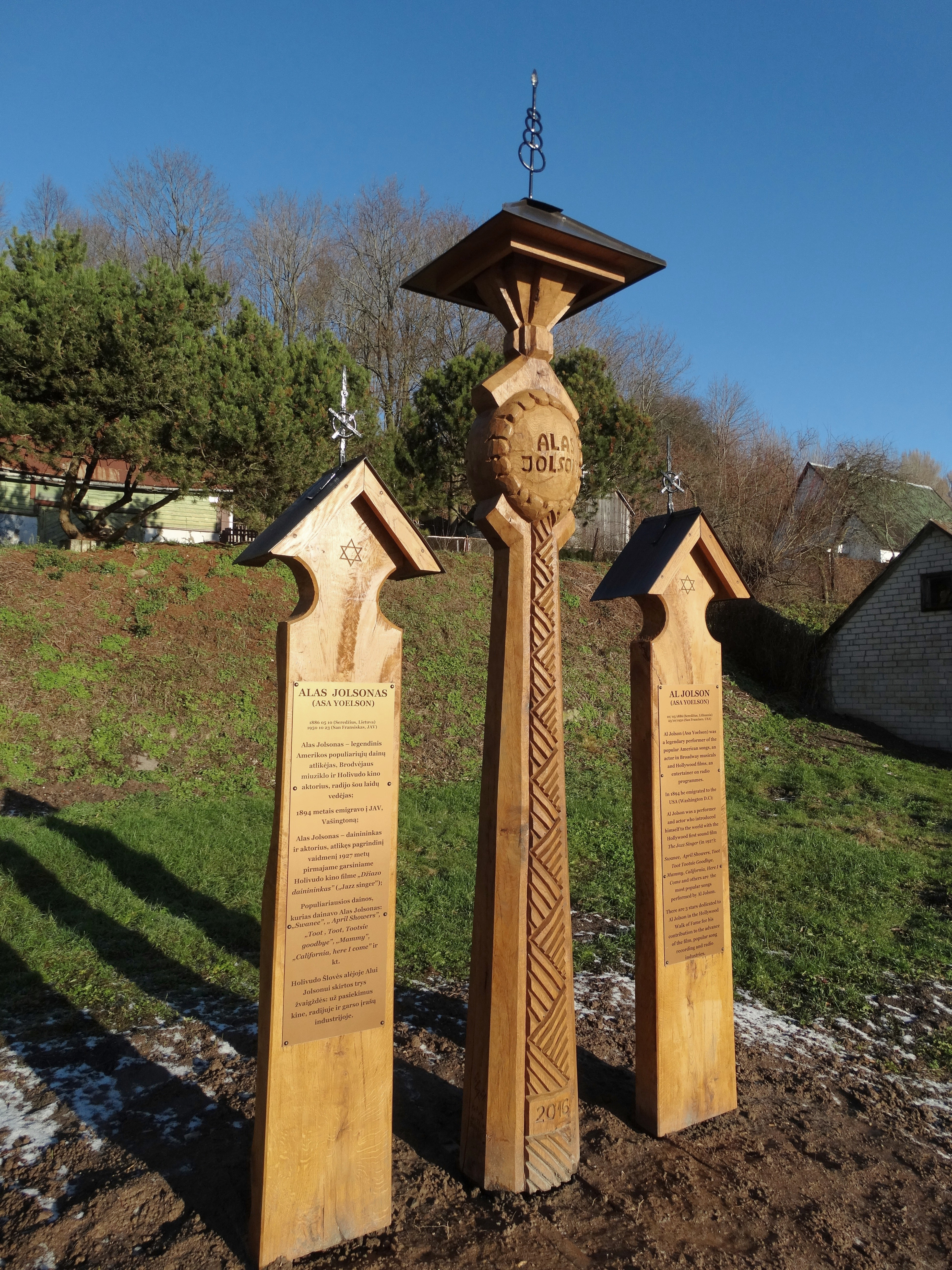 In memory of Al Jolson in Seredžius, Jurbarkas district, Lithuania